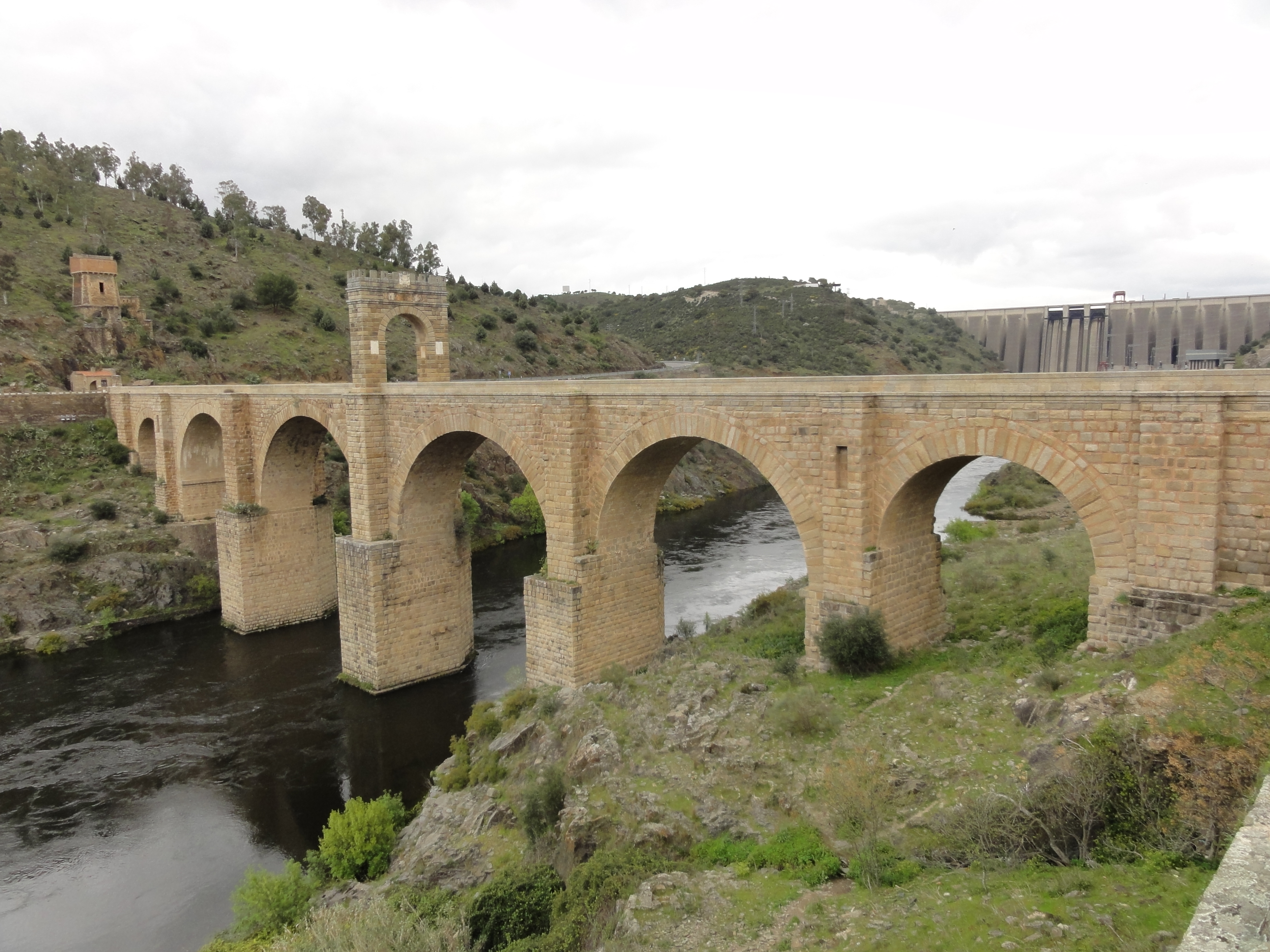 Alcántara Bridge (Alcántara, Cáceres, Spain)